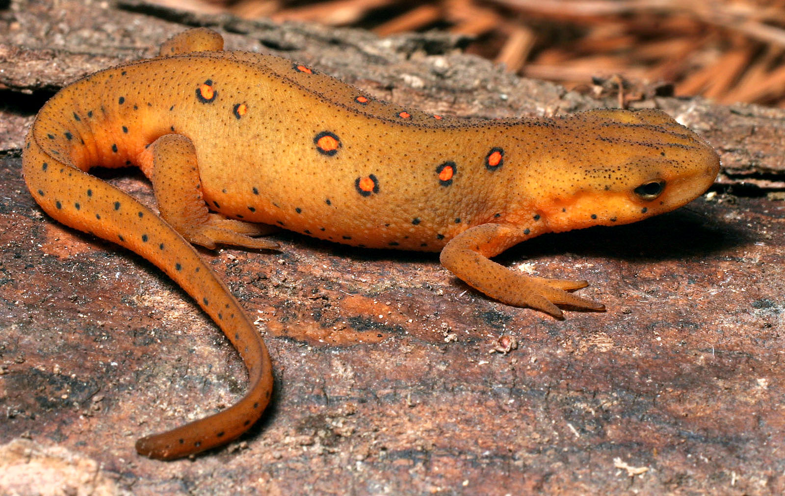 Eastern Newt (Red Eft). Location: Durham County, North Carolina, United States. (New version, 1600 pixels width, color balance adjusted, uploaded 29 November 2007.)